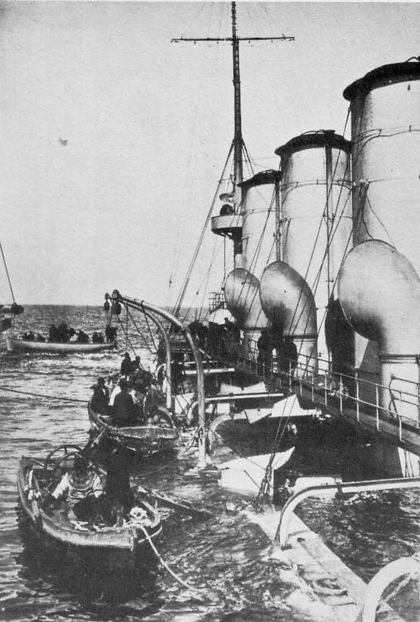 Ottoman cruiser Mecidiye in Odesa, 3 April 1915.